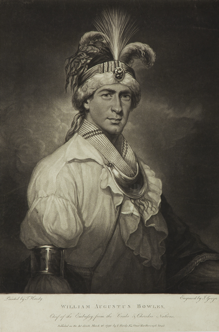 William Augustus Bowles (1763-1805), also known as Estajoca, Mezzotint, waist-length portrait of man in 3/4 view, wearing white shirt, metal arm band, necklaces, gorget, shoulder bag and feathered headdress. Museum of Early Southern Decorative Arts, Accession Number: 3765. Note: Born in Maryland of English ancestry, he was an adventurer who served with the Maryland Loyalists Battalion as an ensign during the American Revolution. Some account credit him with the name Billy Bowlegs, and connect him to piracy.